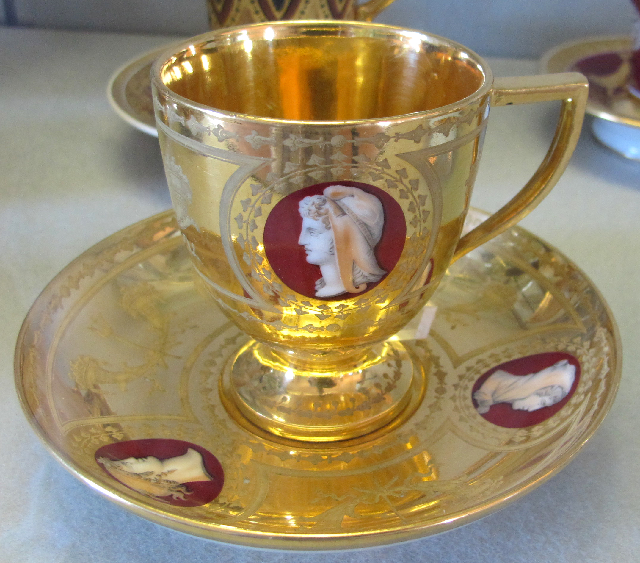 Nast porcelain